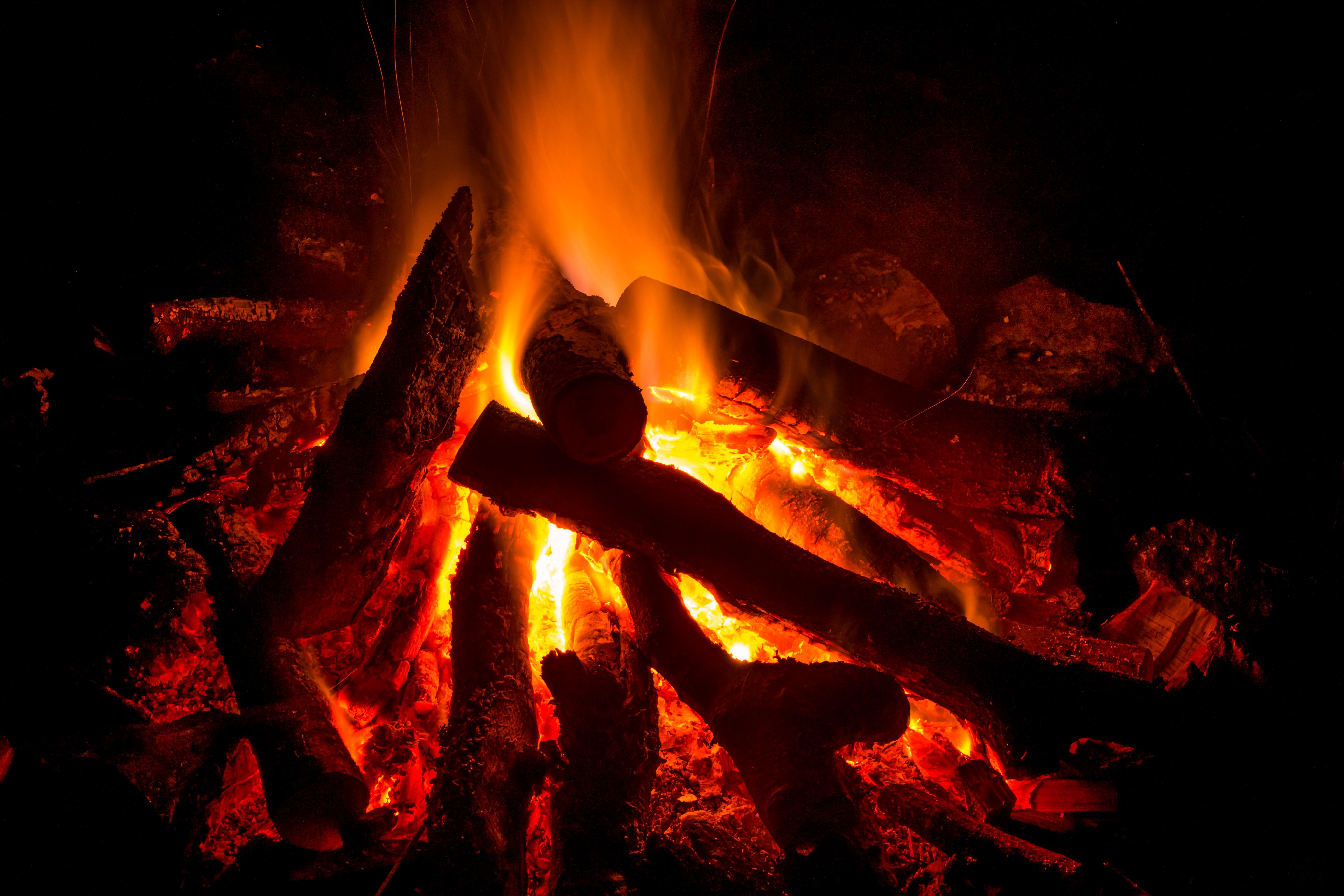 Campfire at Bramble Bield